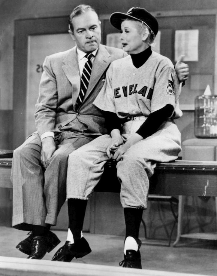 Publicity photo from the television program I Love Lucy, episode "Lucy and Bob Hope", originally aired Oct. 1, 1956. In this episode, Lucy is at Yankee Stadium and spots Bob Hope, who she wants to persuade to appear at Ricky's club. To try to talk him into it, she tries many different approaches, including suiting up as a visiting team player.